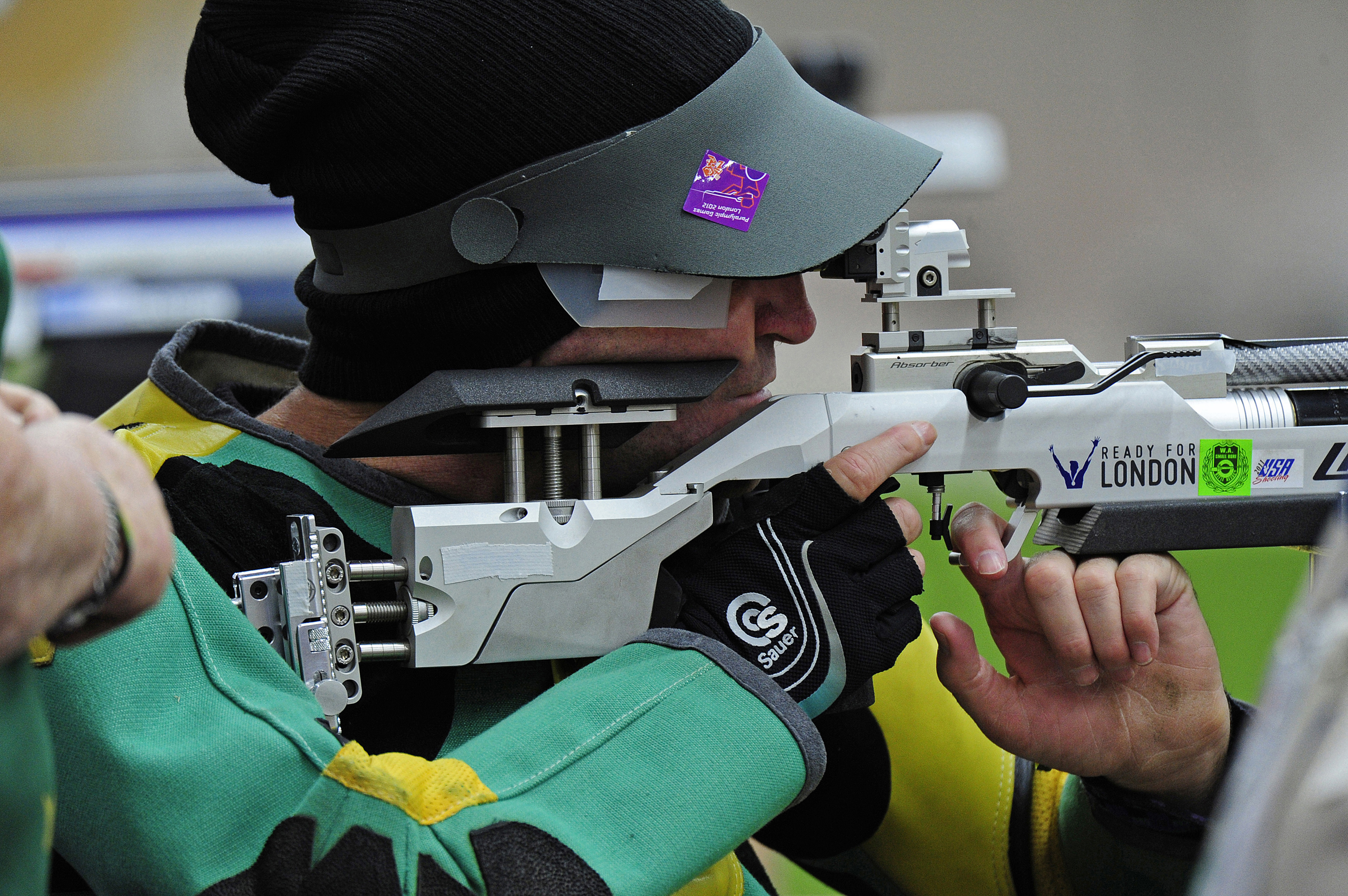 Photograph of Australian Paralympic team member Jason Maroney at the 2012 Summer Paralympic Games in London